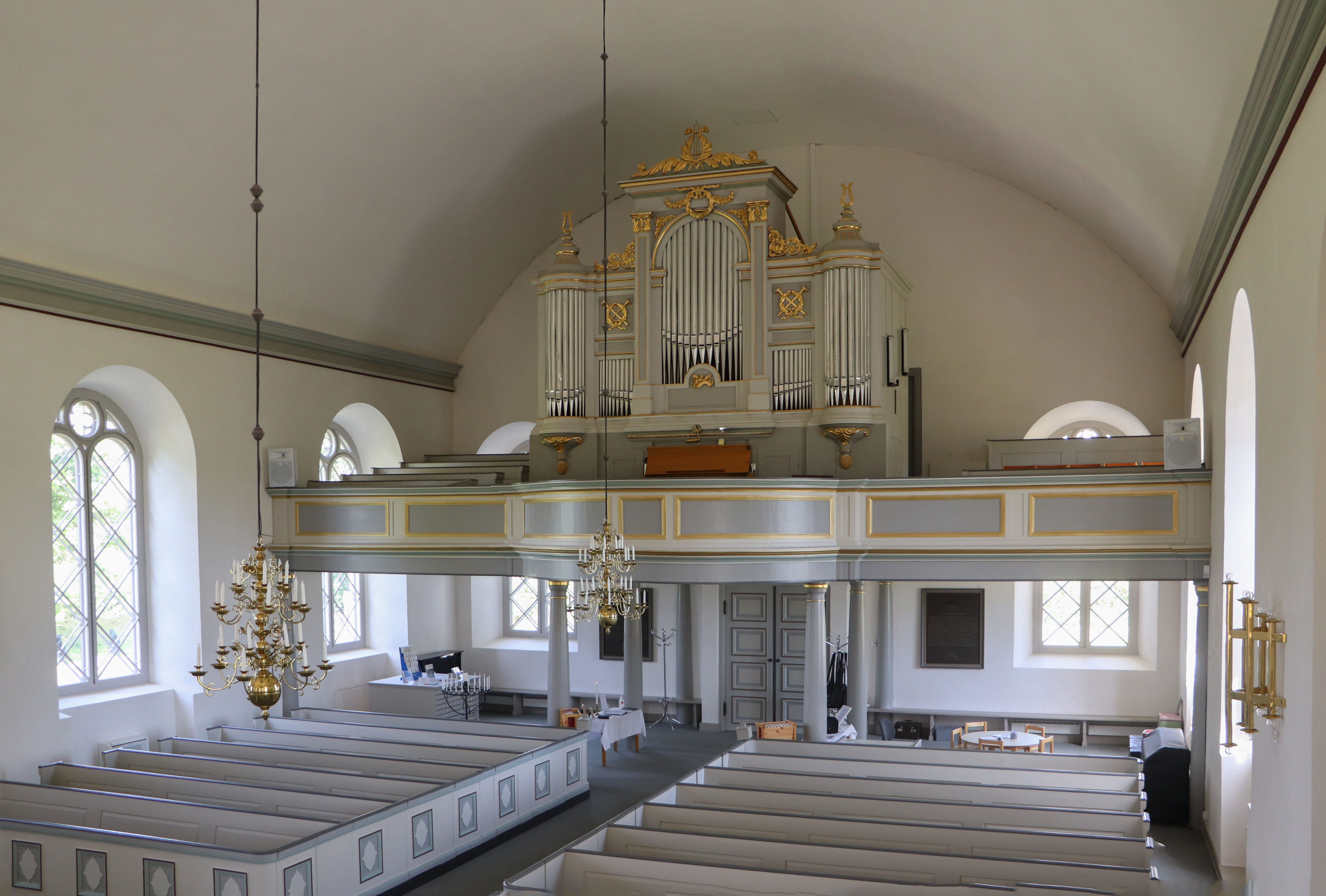 Drev-Hornaryd Church.The organ